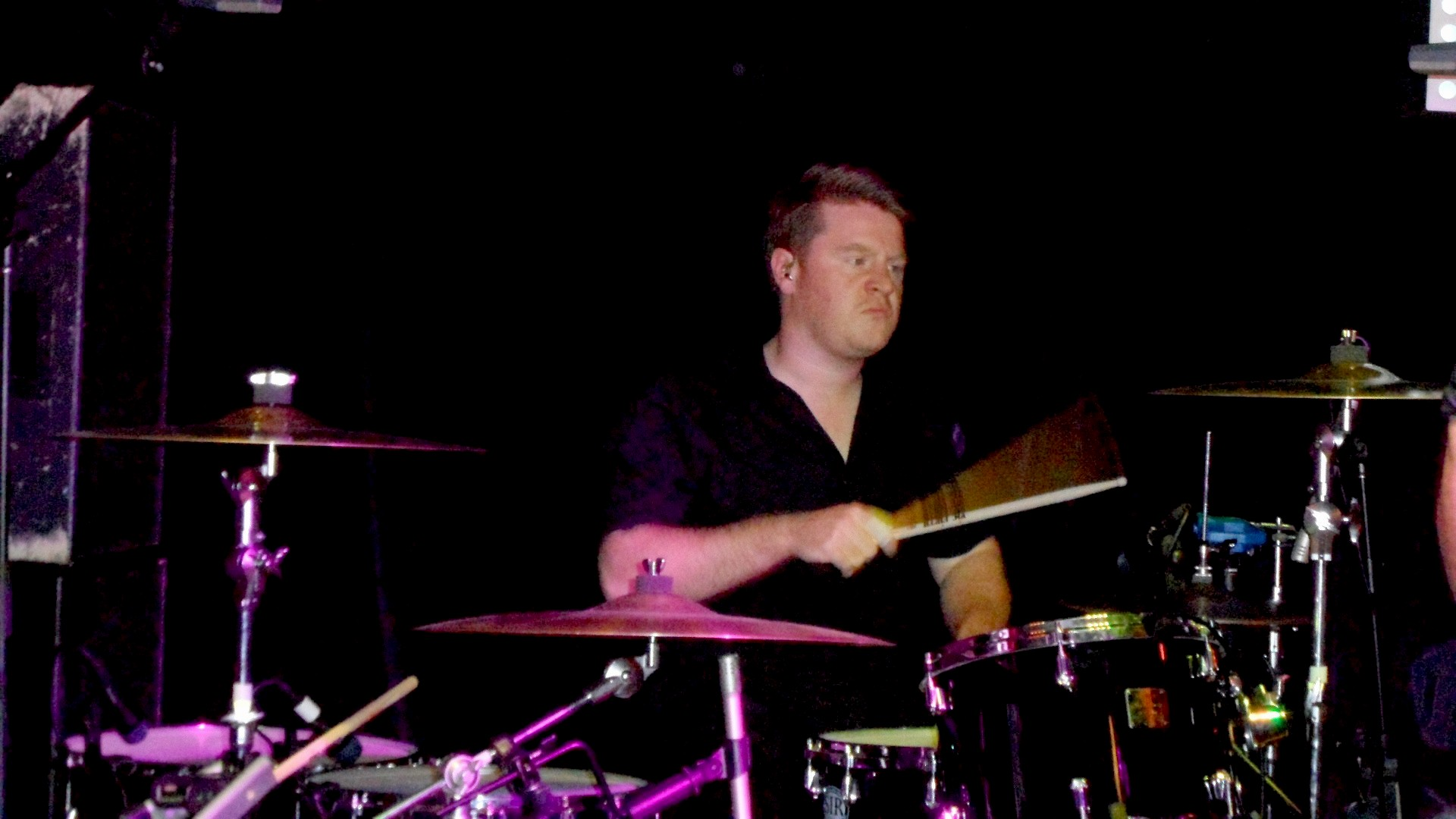 Performing with the Stranglers at the Cobra Lounge in Chicago on June 7th, 2013